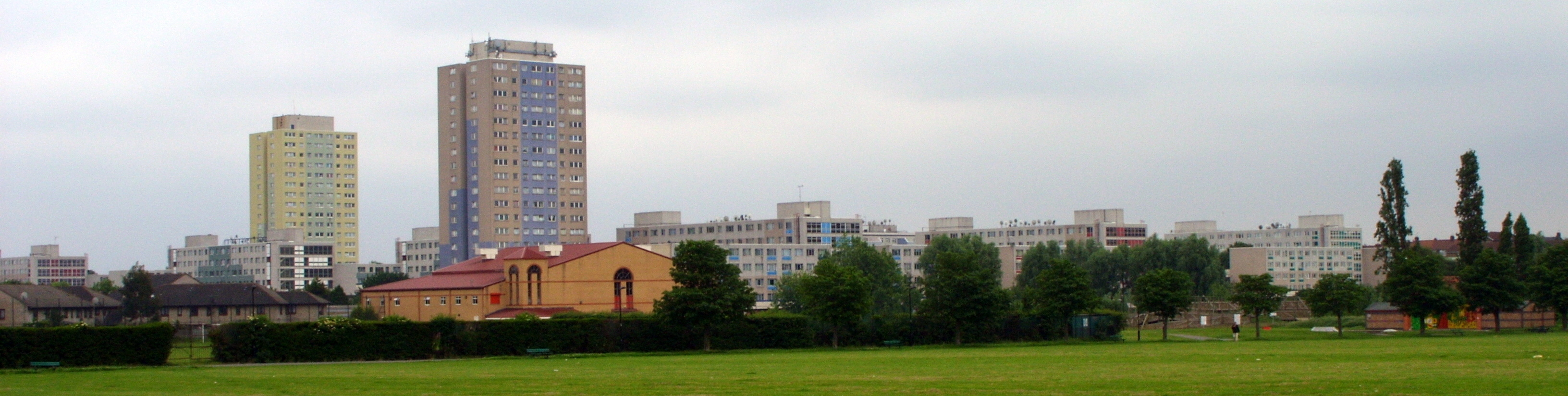 Panorama of Broadwater Farm, London N17